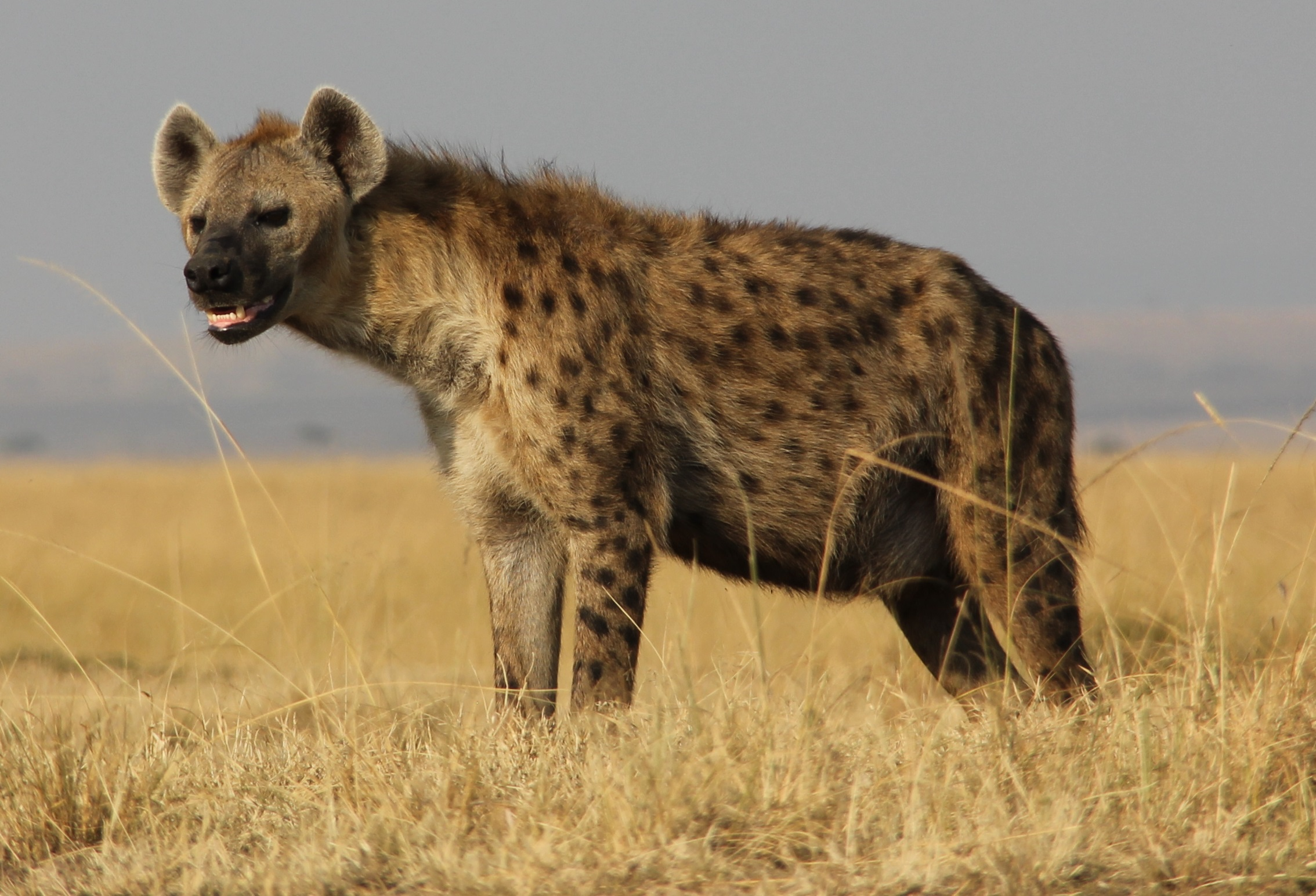 Spotted hyena in the Masai Mara, Kenya.